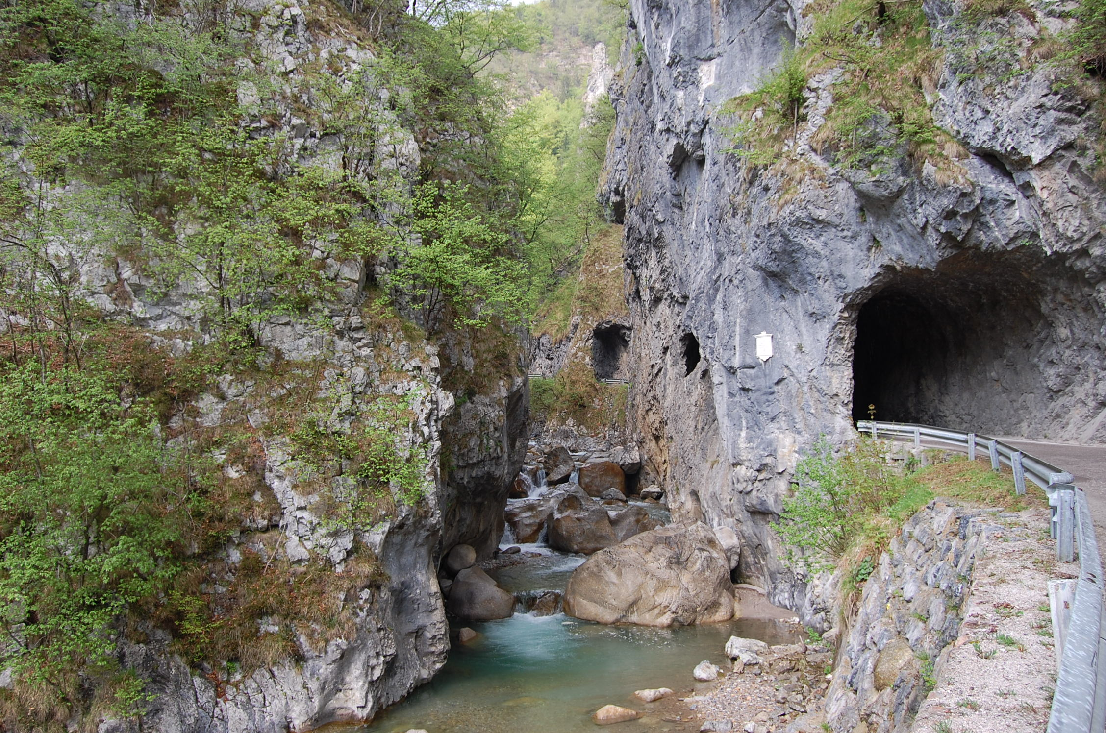 Mountain Torrent in Dovžanova soteska (Tržič, Slovenia, spring 2008)